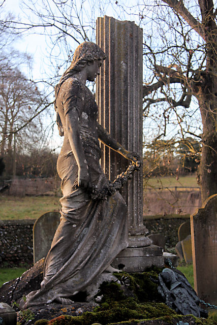 Memorial in Herringswell churchyard